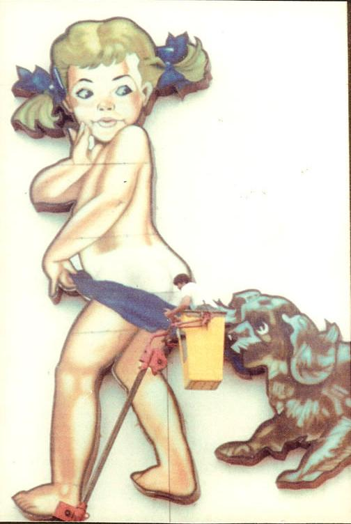 photograph of Bengis Associates employee performing routine maintenance on the Coppertone girl sign on the north wall of Parkleigh House at 530 Biscayne Blvd. in Miami, Florida in 1980